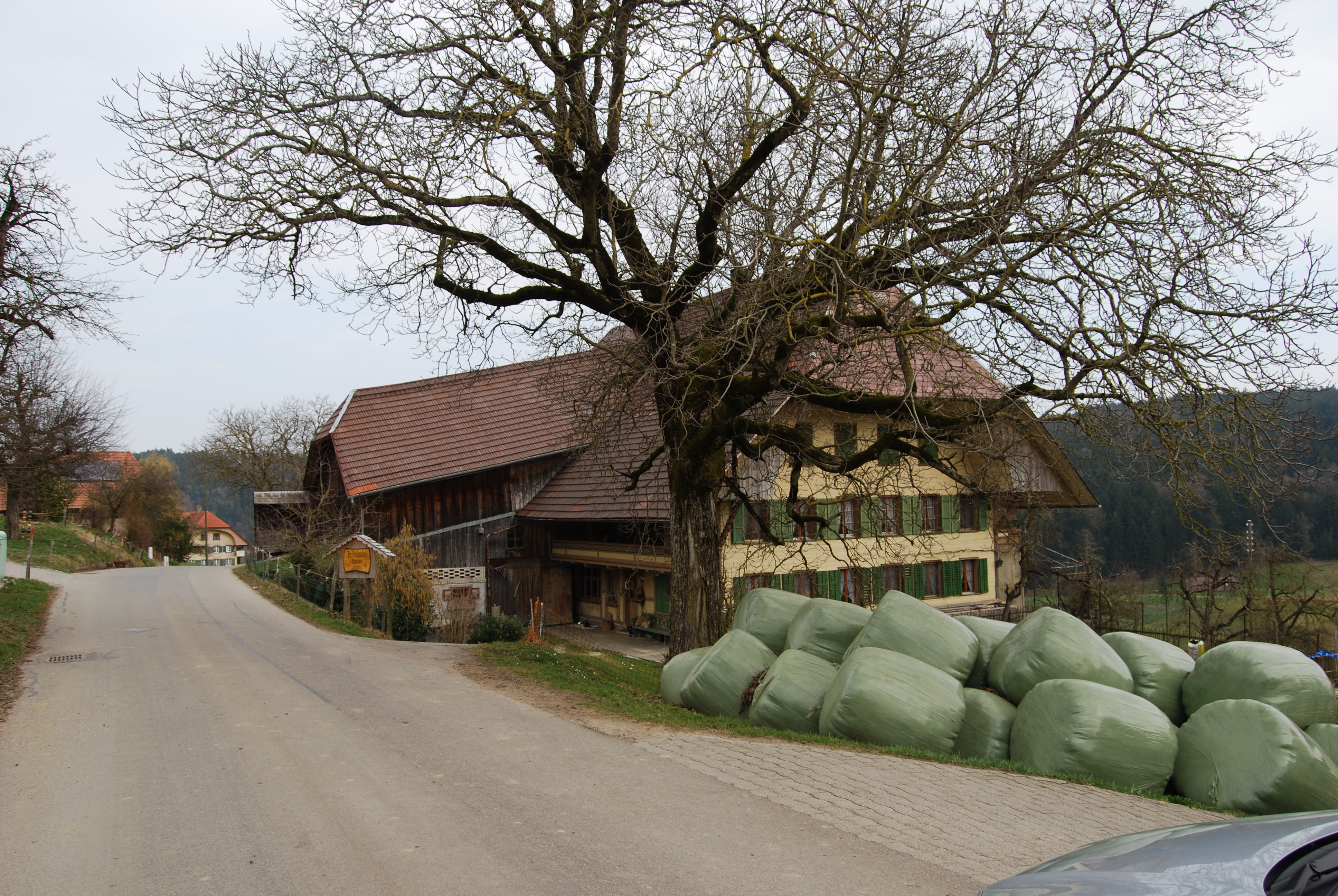 Reisiswil, canton of Bern, SwitzerlandEsperanto: Reisiswil, Kantono Berno, Svislando